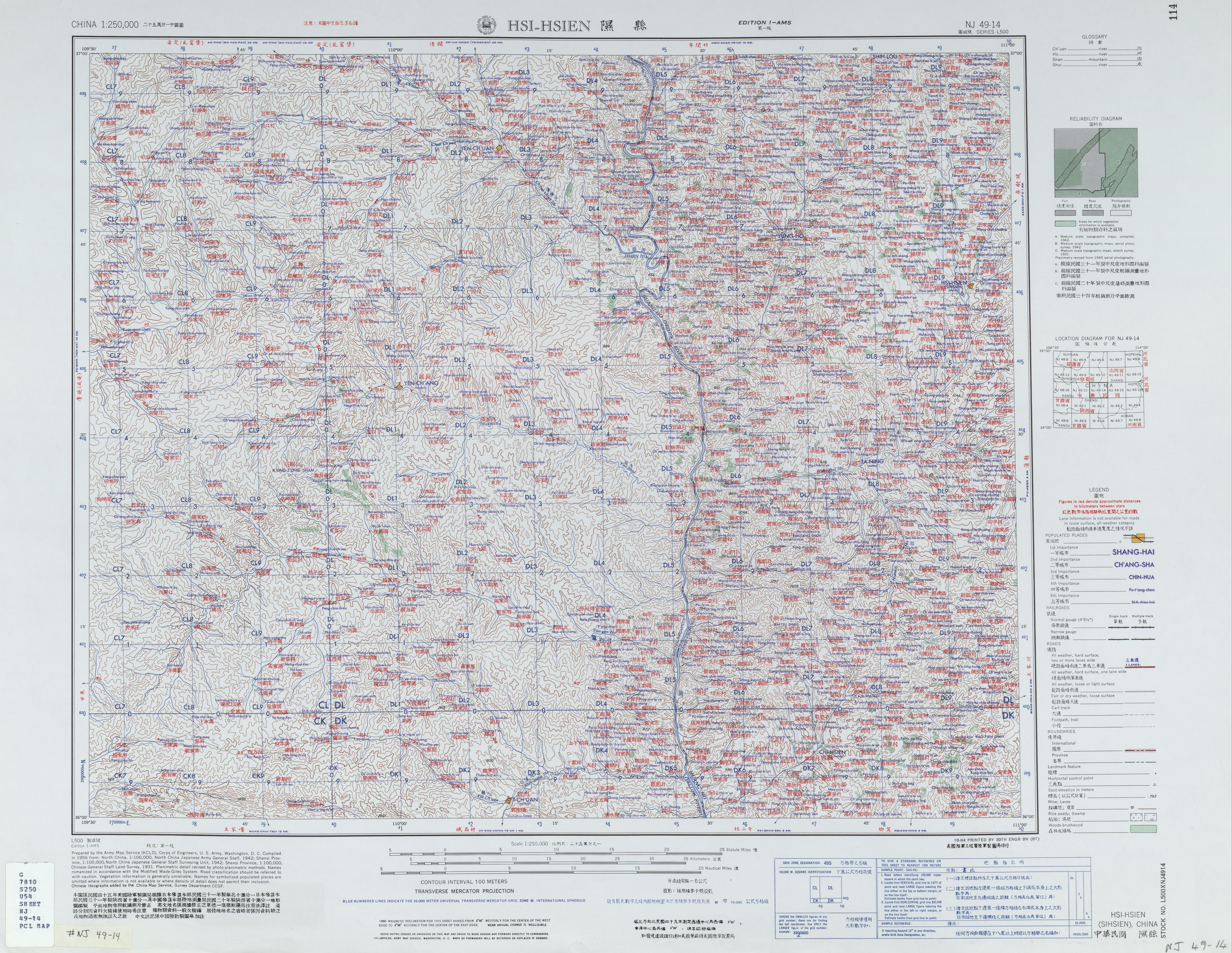 China AMS Topographic Maps